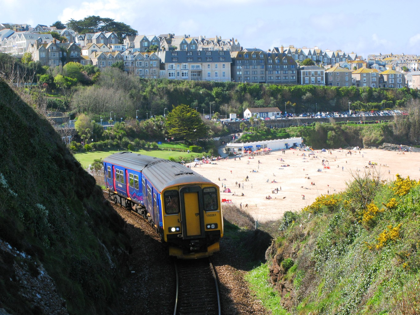 First Great Western 150261 leaves St Ives, Cornwall, United Kingdom, with a train for St Erth. It is at Porthminster Point with Porthminster beach and the town of St Ives in the background.